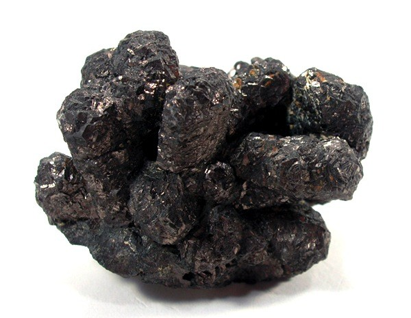 Luzonite, Enargite Locality: Chinkuahshih Mine, Jui-Fang Town, Taipei County, Taiwan Province, Taiwan (Locality at ) Size: 5.2 x 3.5 x 2.5 cm. One of the rare copper species, luzonite is especially desirable from this now defunct quarry in Taiwan, where it has replaced enargite to make these big, chunky crystals. Ex. Martin Zinn Collection.